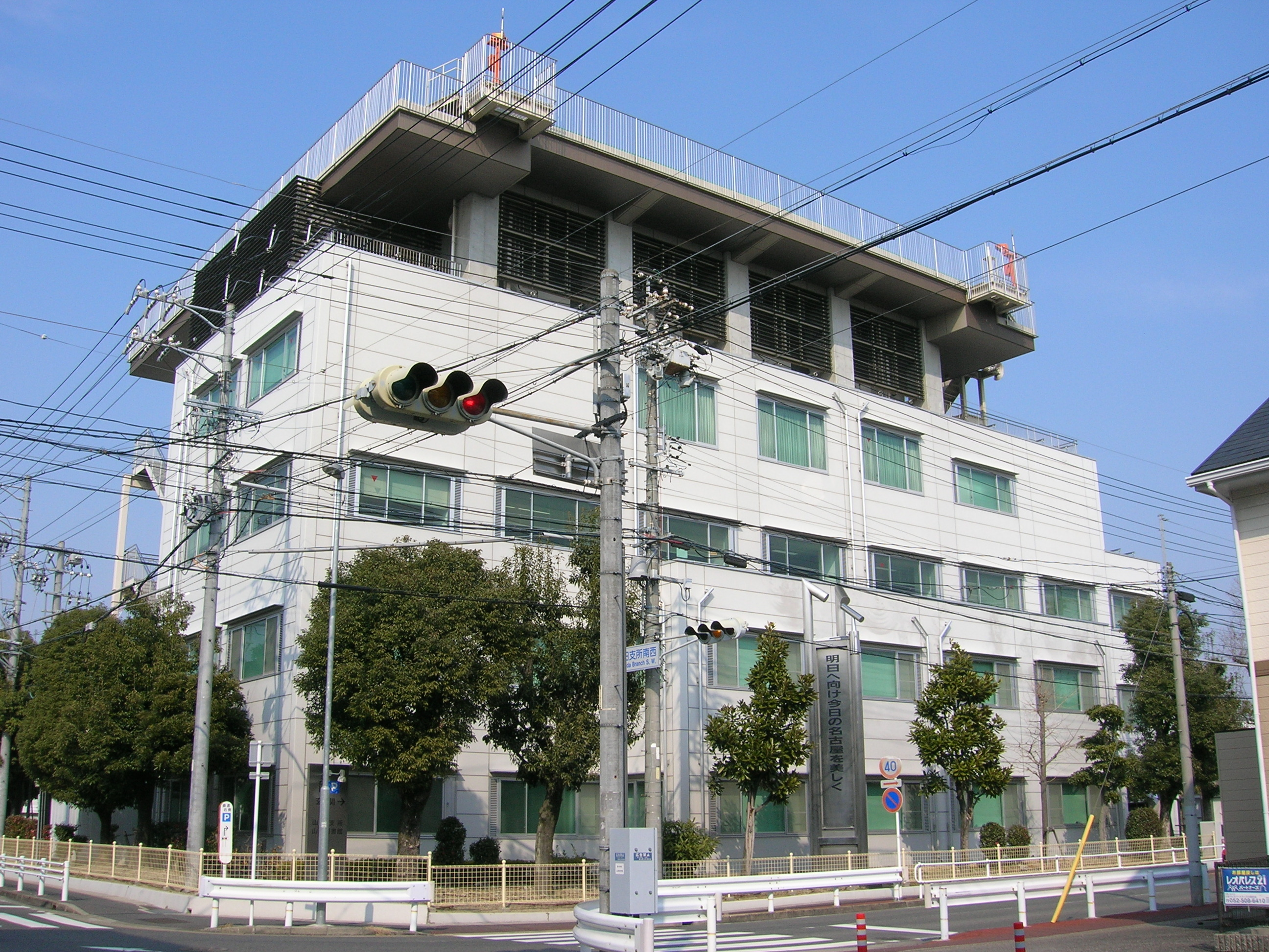 Nishi ward office Yamada branch, and Nagoya City Yamada library. Loc: Nishi-ku, Nagoya city, Aichi Prefecture, Japan.